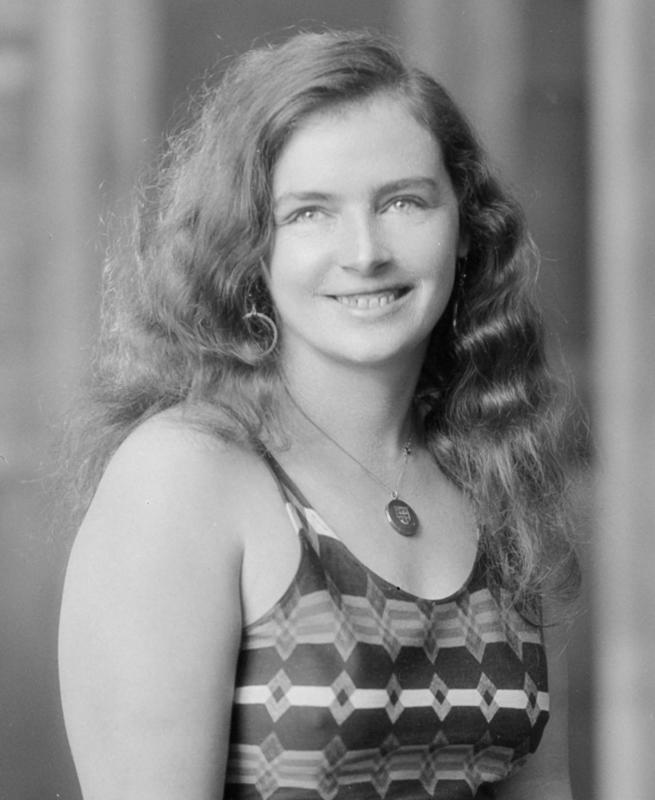 Mercedes Gleitze or Mercedes Carey (18 November 1900 – 9 February 1981) was a British professional swimmer. cropped photograph by unknown (Crown Studios), December 1930, Crown Studios negatives and prints, Alexander Turnbull Library, Reference: 1/1-032967-F